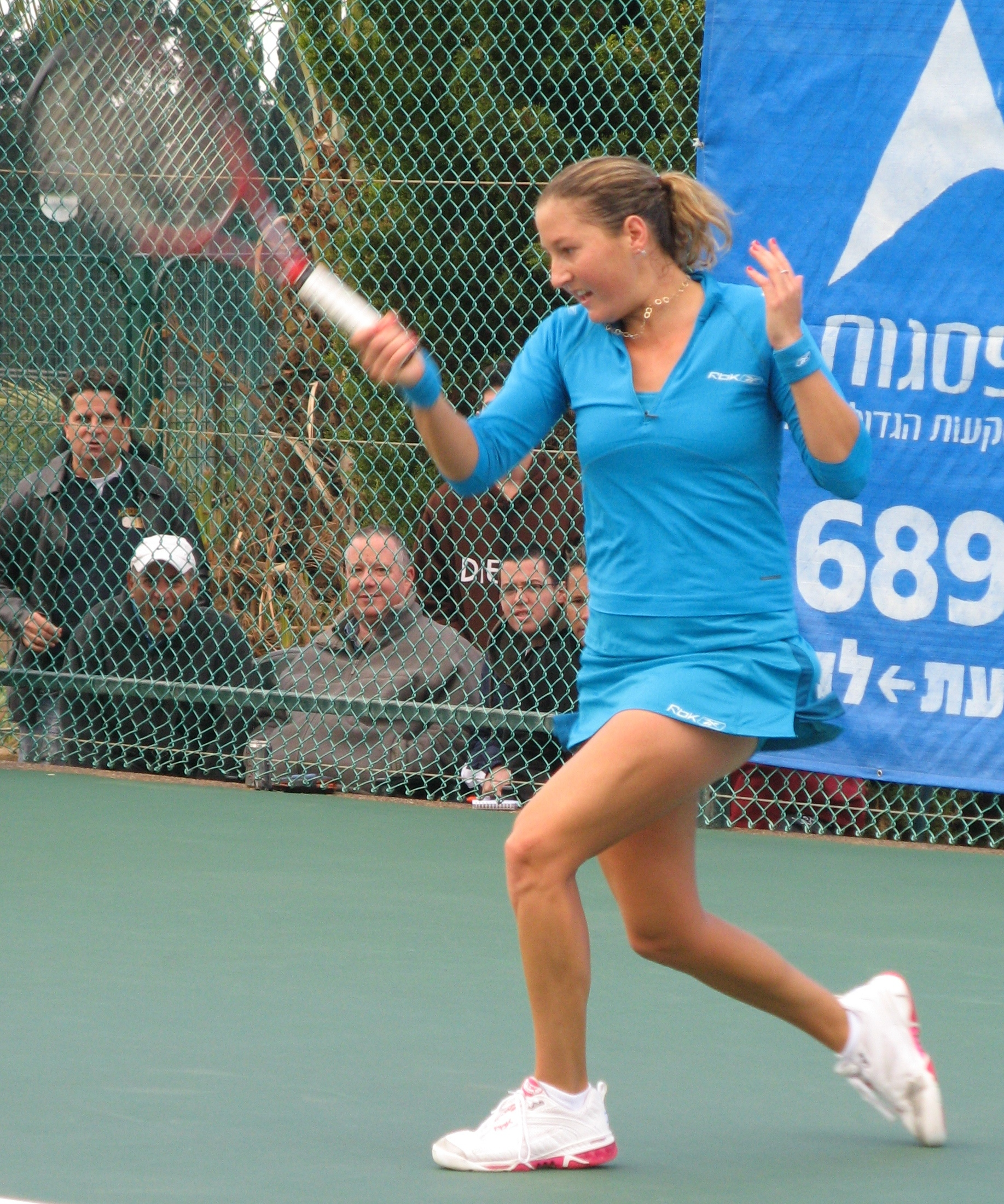 Israeli tennis player Shahar Pe'er at the Israel tennis championship 2008 semi final against Julia Glushko